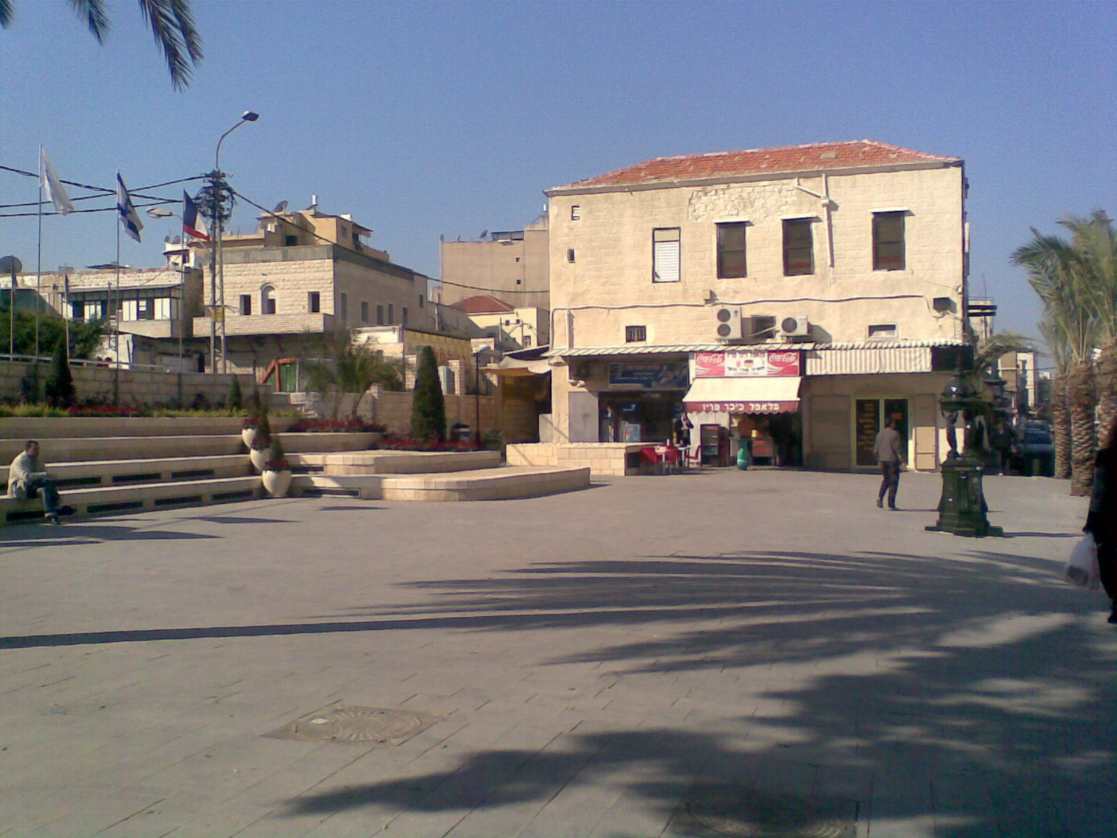 Place de Paris (Haifa) - general view